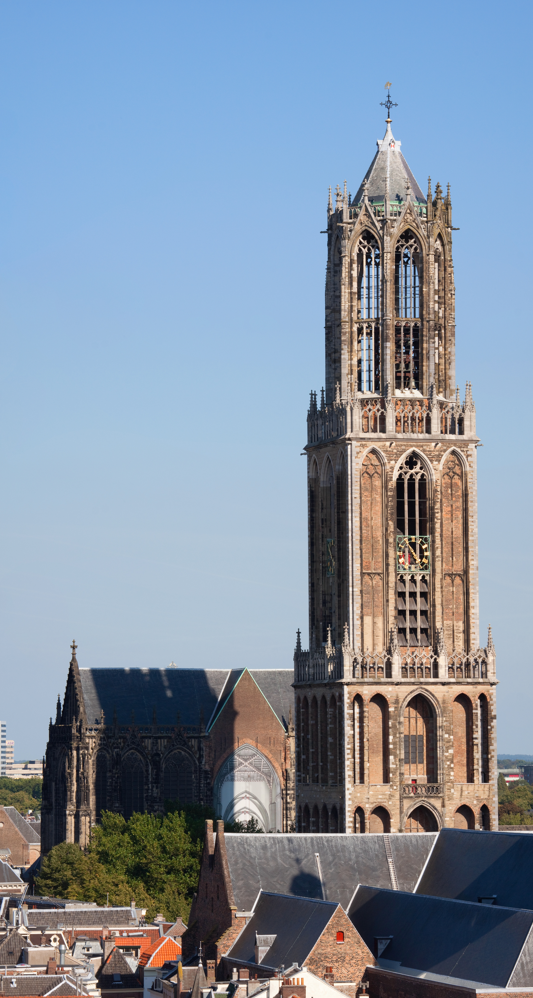 The Dom Tower in Utrecht, the Netherlands is one of the best known landmarks of this country. This gothic tower is the highest church tower (112,5 metres/368 feet) in the Netherlands and was built between 1321 and 1382 as part of the Cathedral of St. Martin. The resolution of the original photograph is 7768*4150.